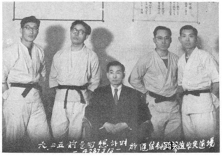 President Lee with seniors members of the Ministry of Communications Taekwondo department.